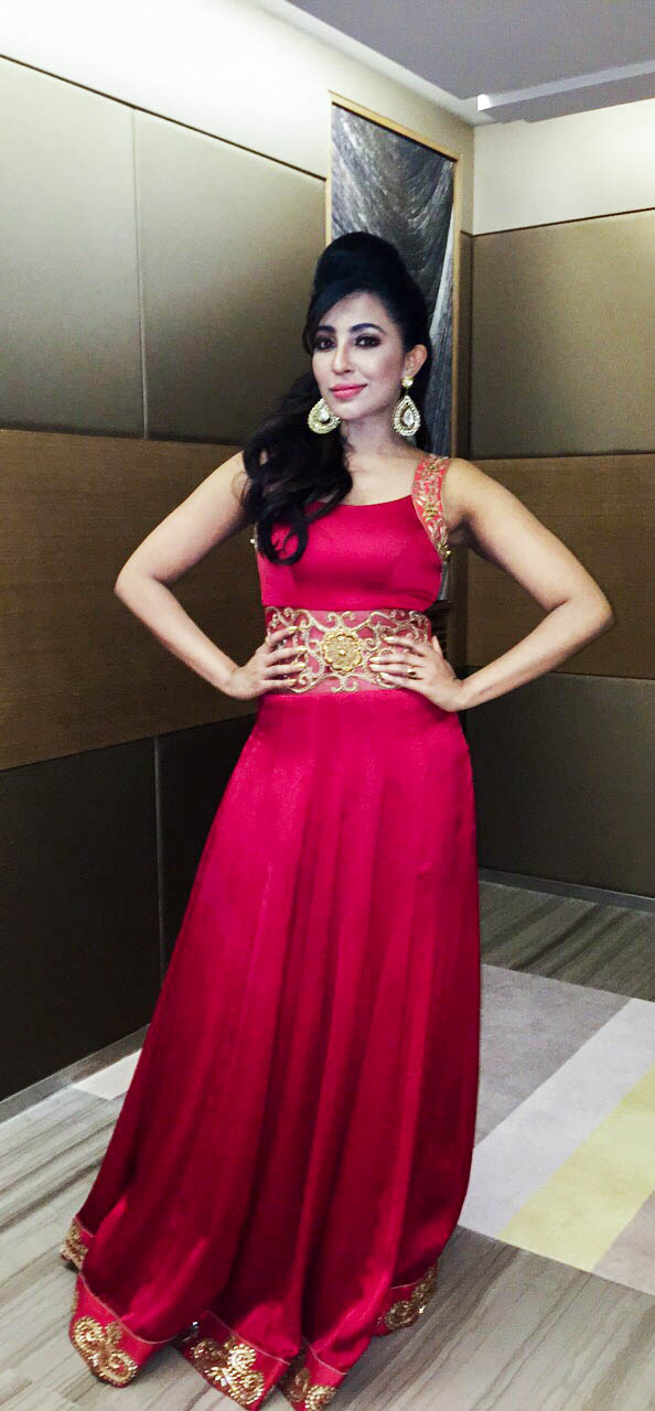 Parvathy nair photo taken in siima 2015 Dubai